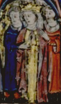 Theodora Komnene (Jerusalem)